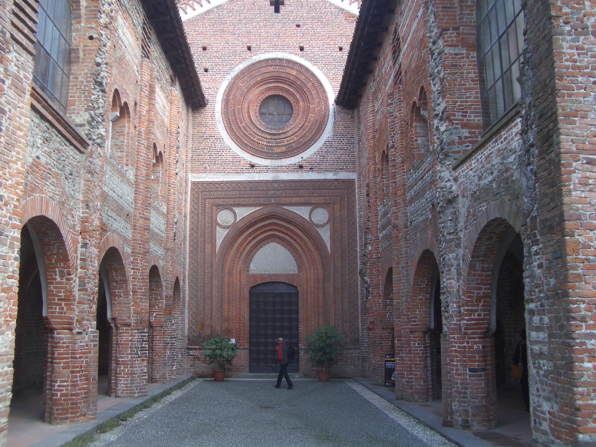 The facade of the church of St. Nazzaro and Celso Abbey, San Nazzaro Sesia, Novara, Italy.